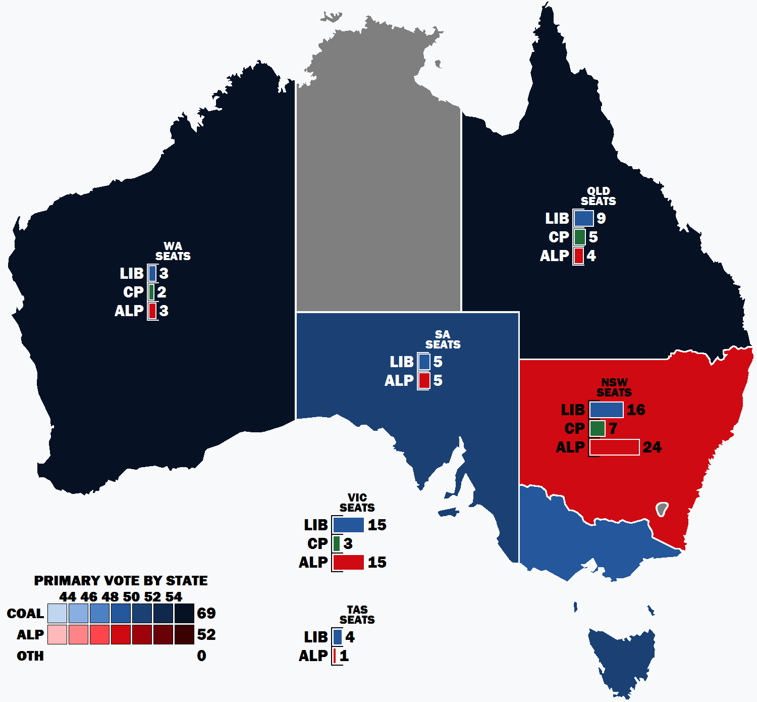 Result of the primary vote by state in the 1951 Australian federal election.